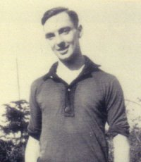 French footballer (career ended in 1935)